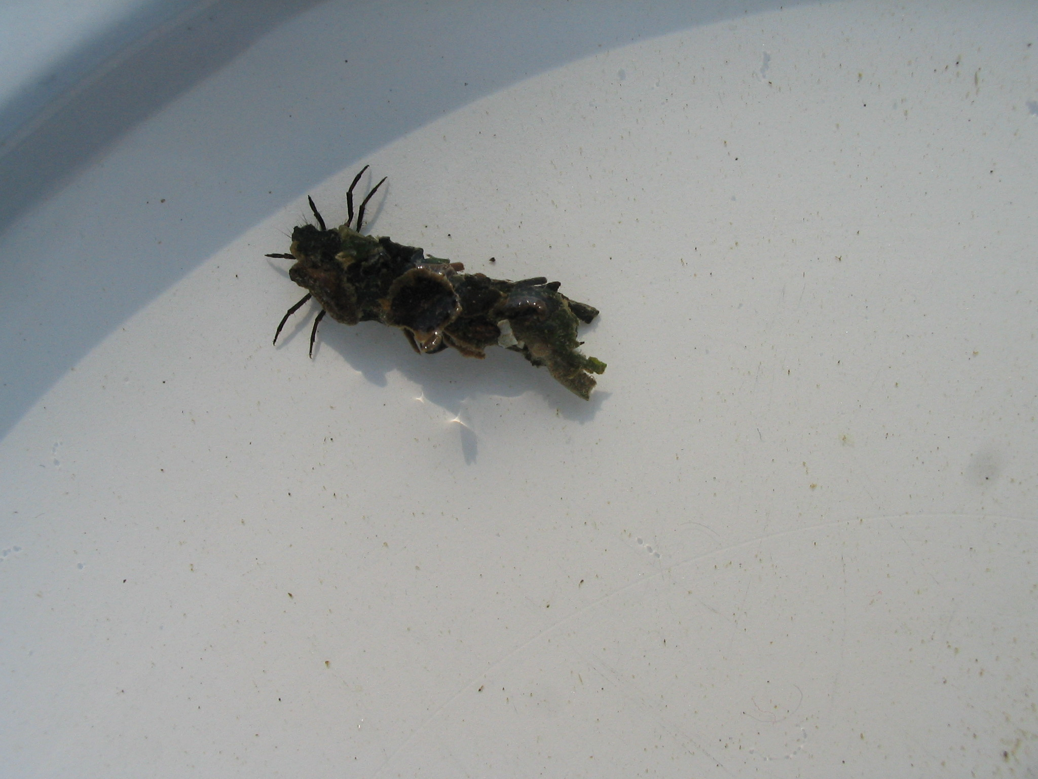 insect larva - trichoptera?